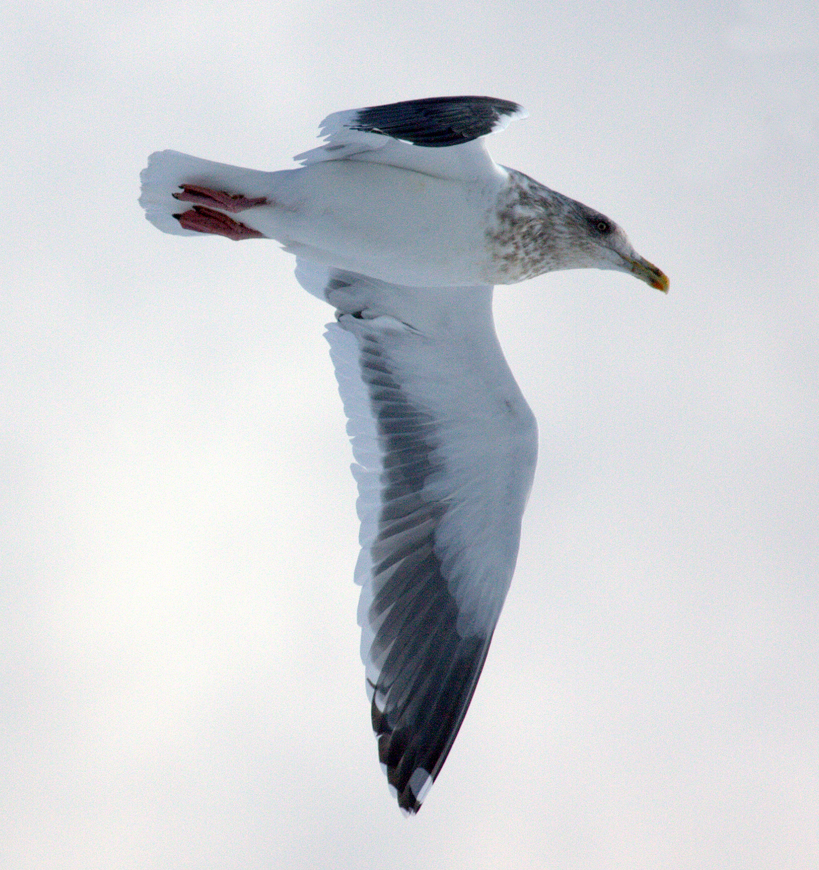 Larus schistisagus adult winter plumage. Ithaca, New York State.